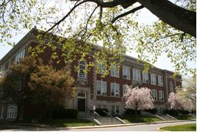 Alexander Hamilton Jr./ Sr. High School